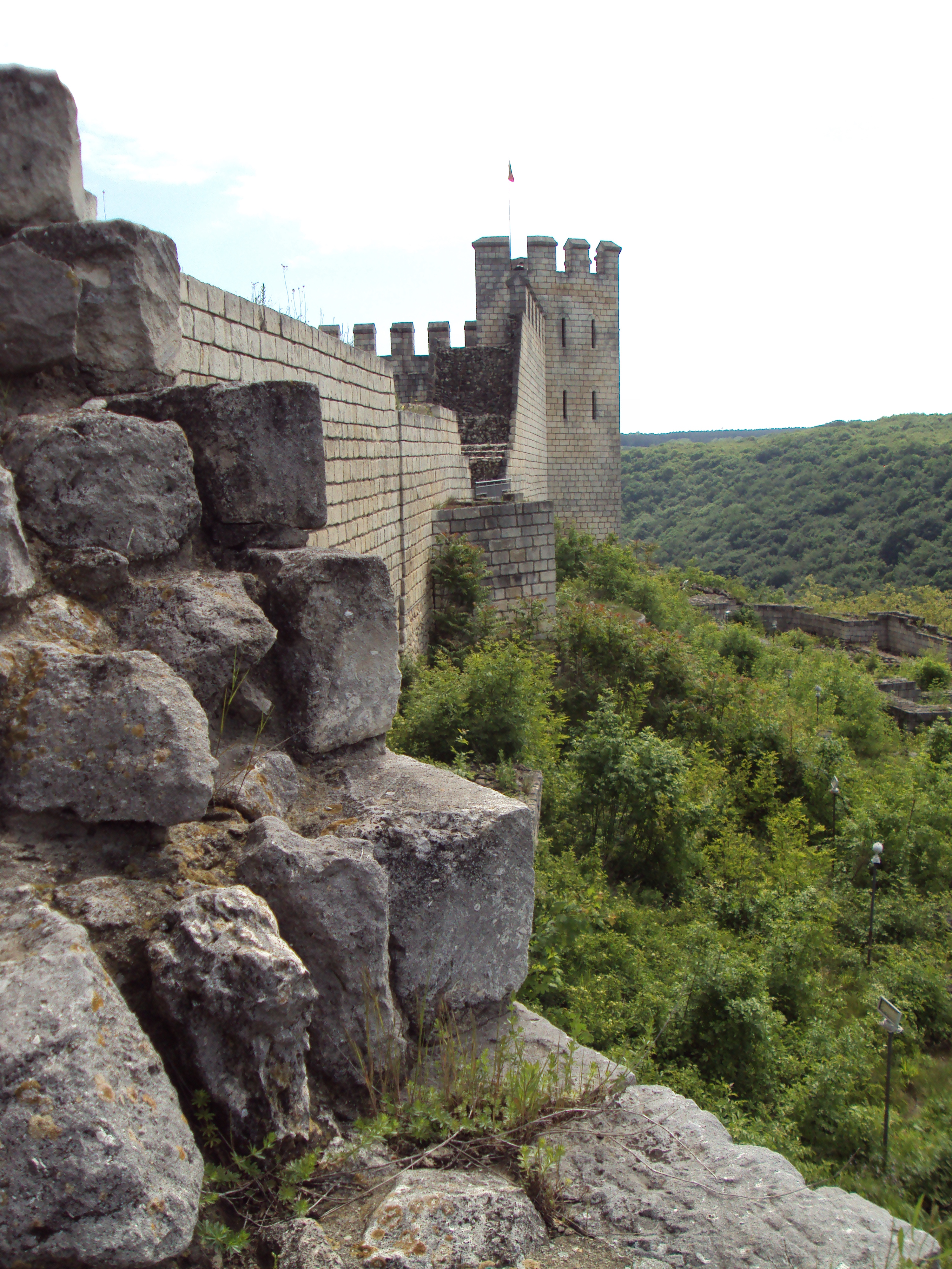 Shumen Fortress